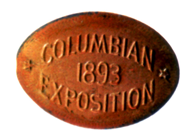 An elongated coin from the 1893 Columbian Exposition. This coin is generally recognized as the first one in the now fairly widespread hobby.